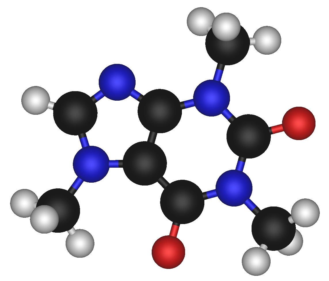 A 3D visualization of a caffeine molecule. Created by me, Michael Ströck (mstroeck), on January 30, 2005. Black spheres represent carbon atoms, gray hydrogen, red oxygen, and blue nitrogen.